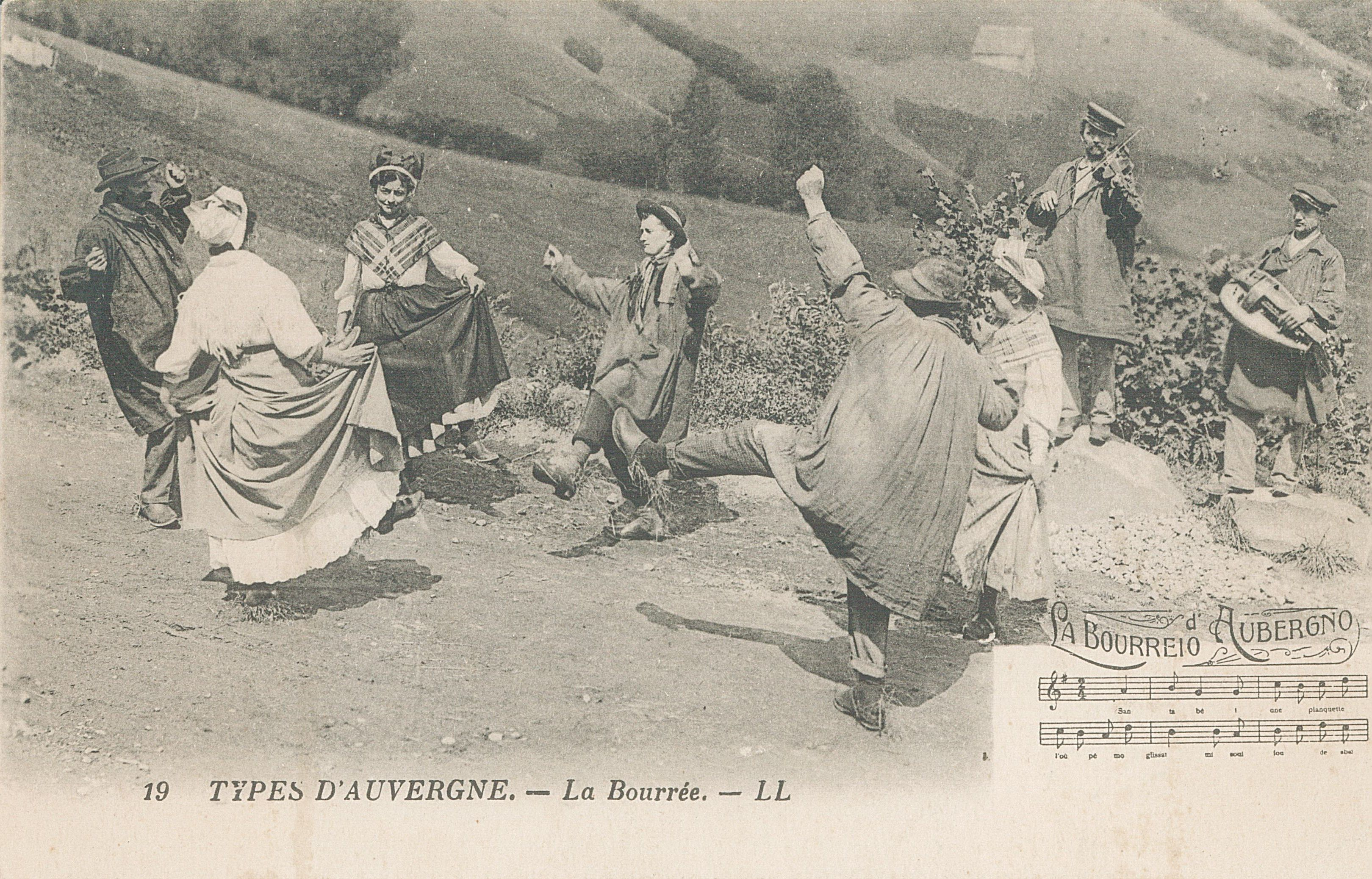 Bourrée d'Auvergne (carte postale du début du 20ème siècle)